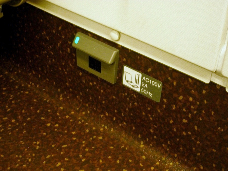 An AC electrical power outlet in a standard-class car of a JR East E5 series shinkansen train